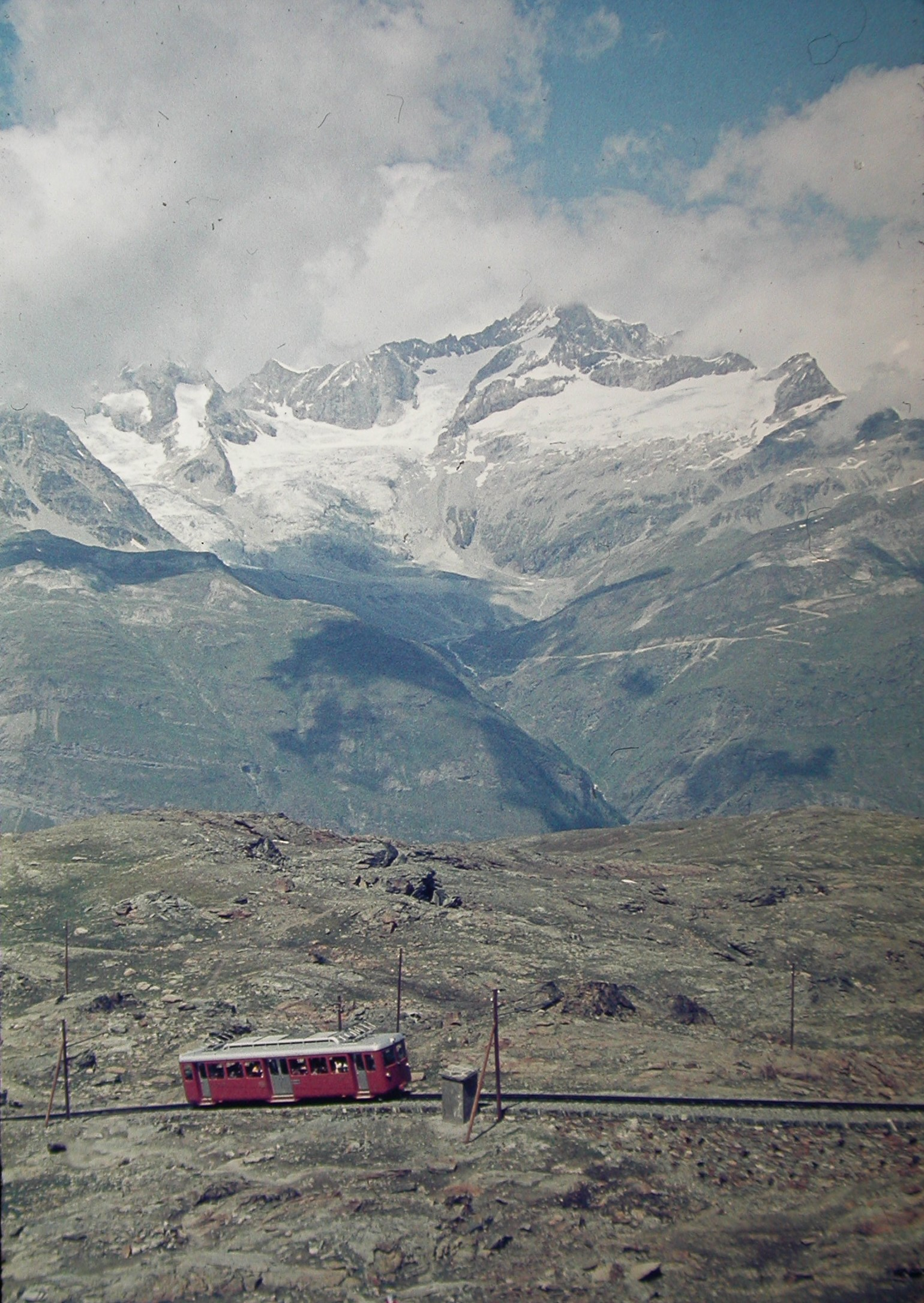 Zinalrothorn, Obergabelhorn and Gornergrat Railway August 1959